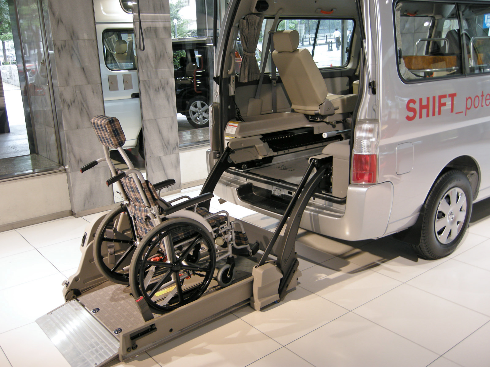 Nissan E25 Caravan Chaircab photographed in Nissan Gallery (Chuo, Tokyo)